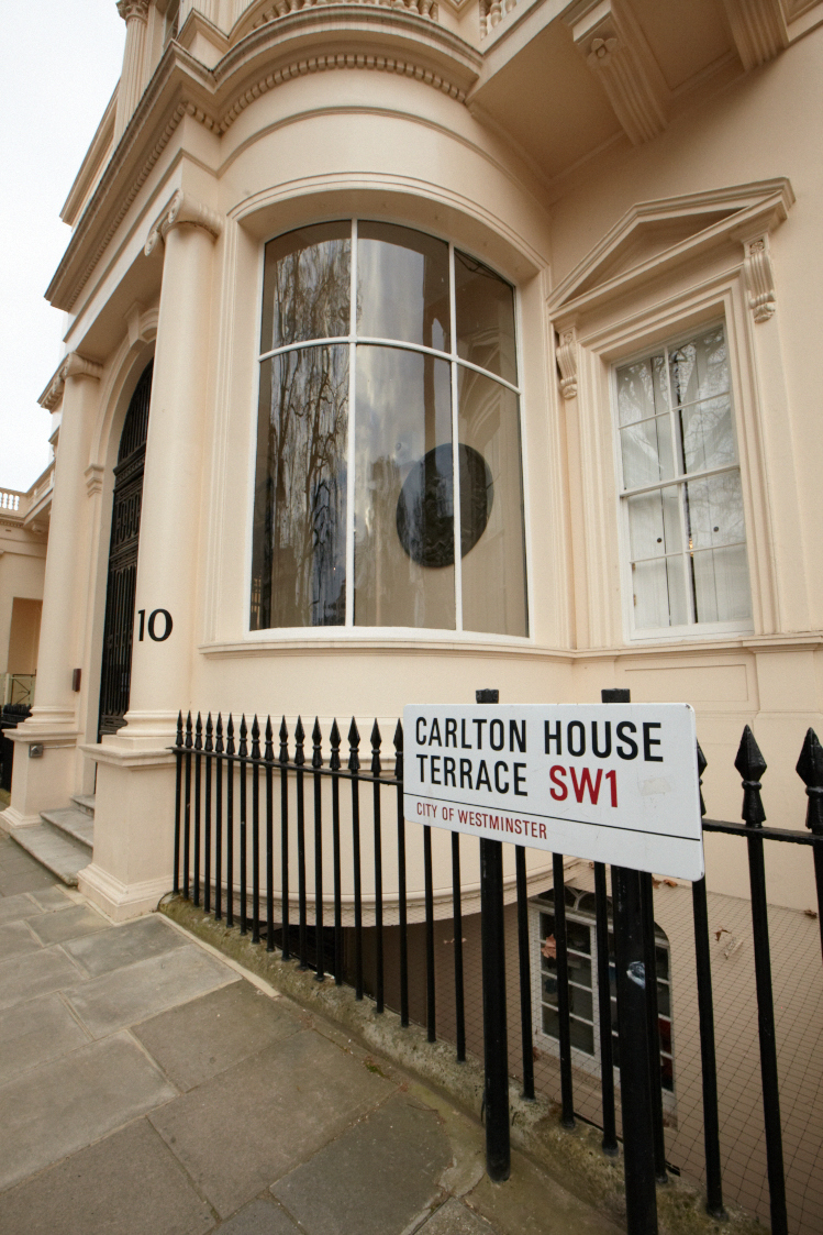 The Royal Academy's premises at 10-11 Carlton House Terrace, London